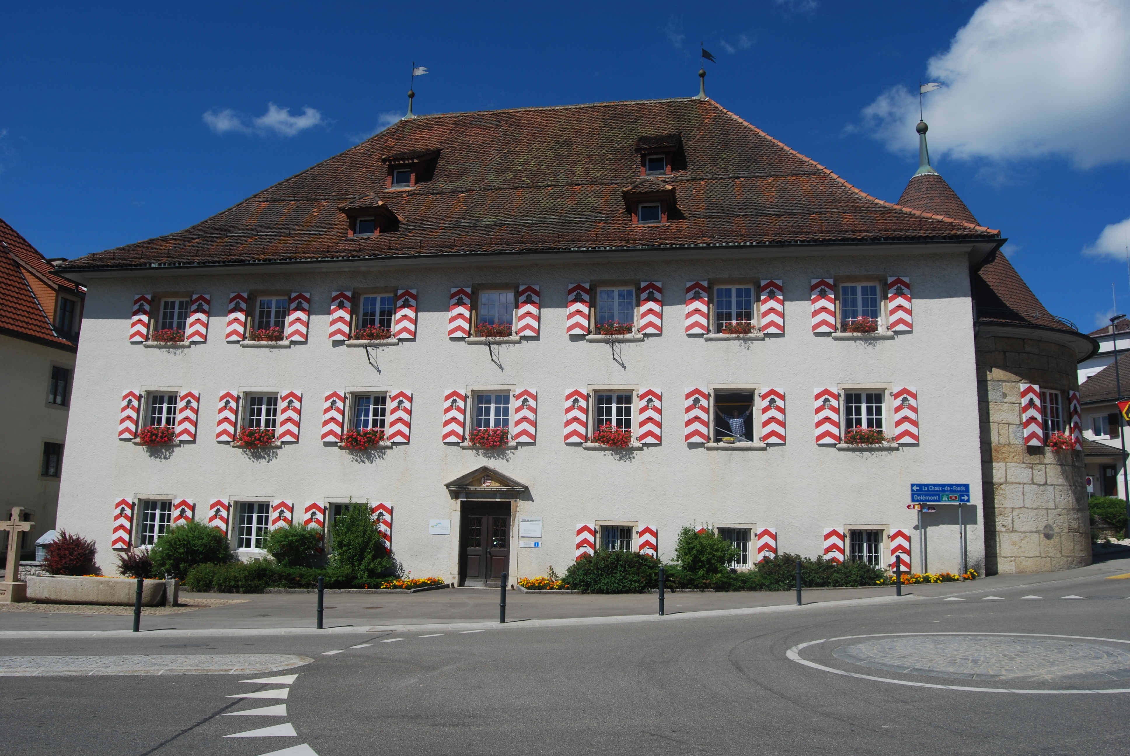 Municipal administration of Saignelégier, canton of Jura, SwitzerlandEsperanto: Komunuma domo de Saignelégier, Kantono Ĵuraso, Svislando